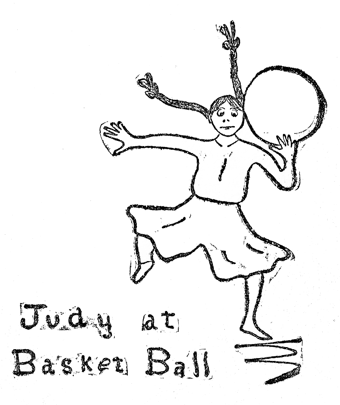 Novel Daddy Long Legs, edition 1919, image on p. 40